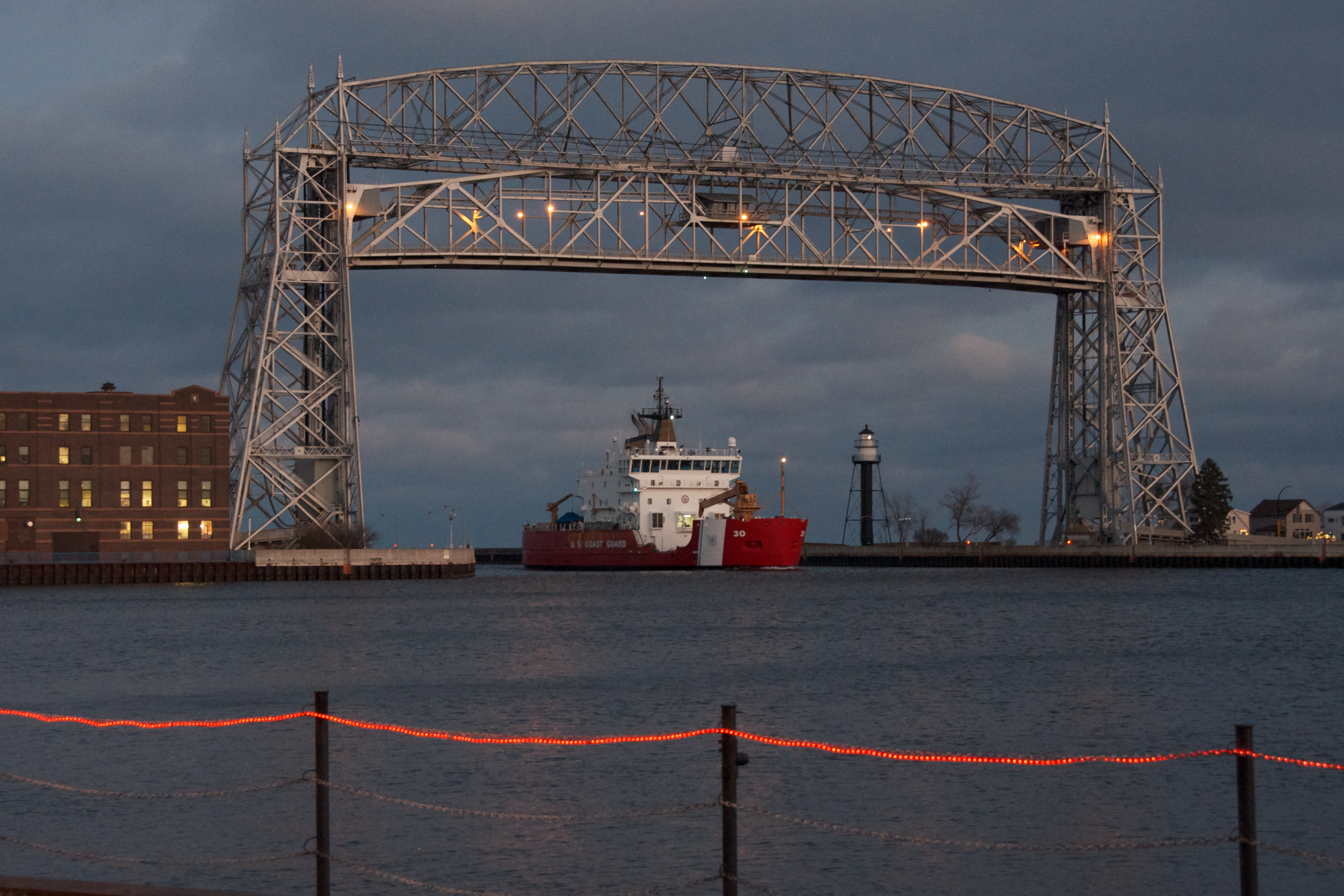 The USCGC Mackinaw entering the Duluth Harbor at dusk. It spend the afternoon conducting sea trials on Lake Superior following repairs at the Fraser Shipyards. The trials were apparently a success as it departed Duluth for home the next day. Mackinaw is a purpose built ice breaker and is the heaviest ice breaker stationed on the Great Lakes. Currently, the US Coast Guard paints the hulls of the ice breaking fleet red. In addition to ice breaking duties, the vessel is also equipped with a buoy deck and crane so it can tend aids to navigation on the Great Lakes.